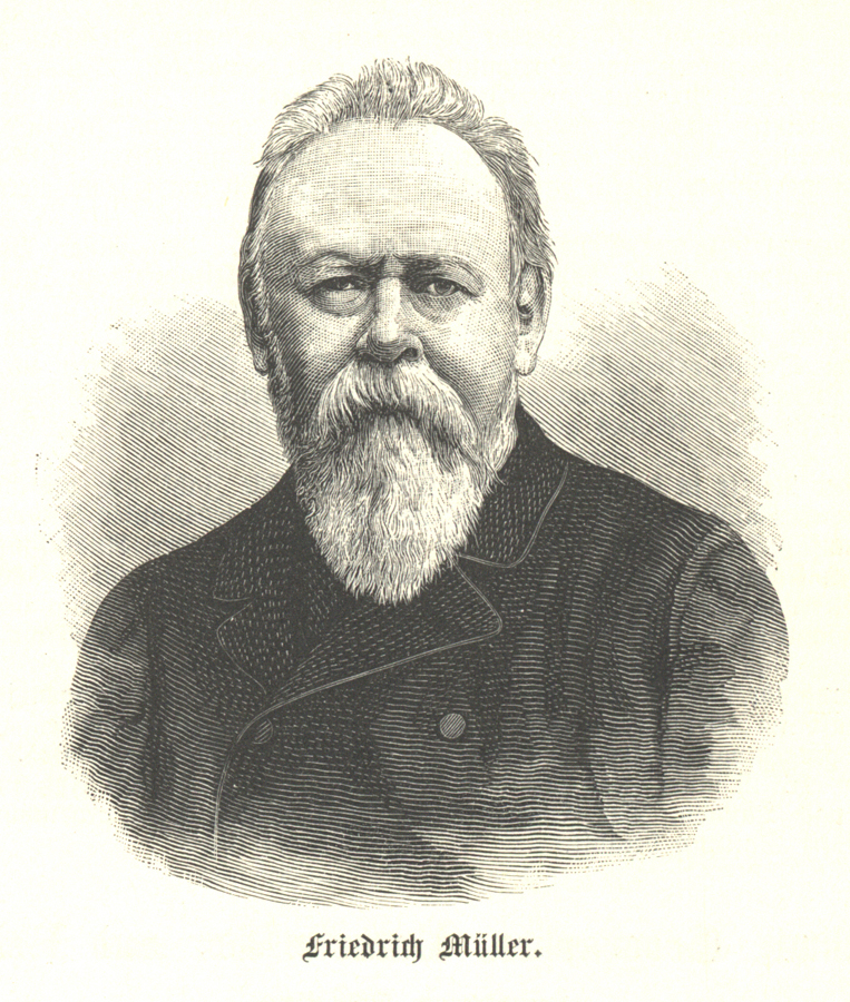 Portrait (woodcut) of the linguist Friedrich Müller